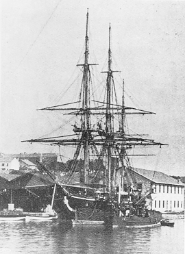 Austrian frigate SMS Novara in Sydney.